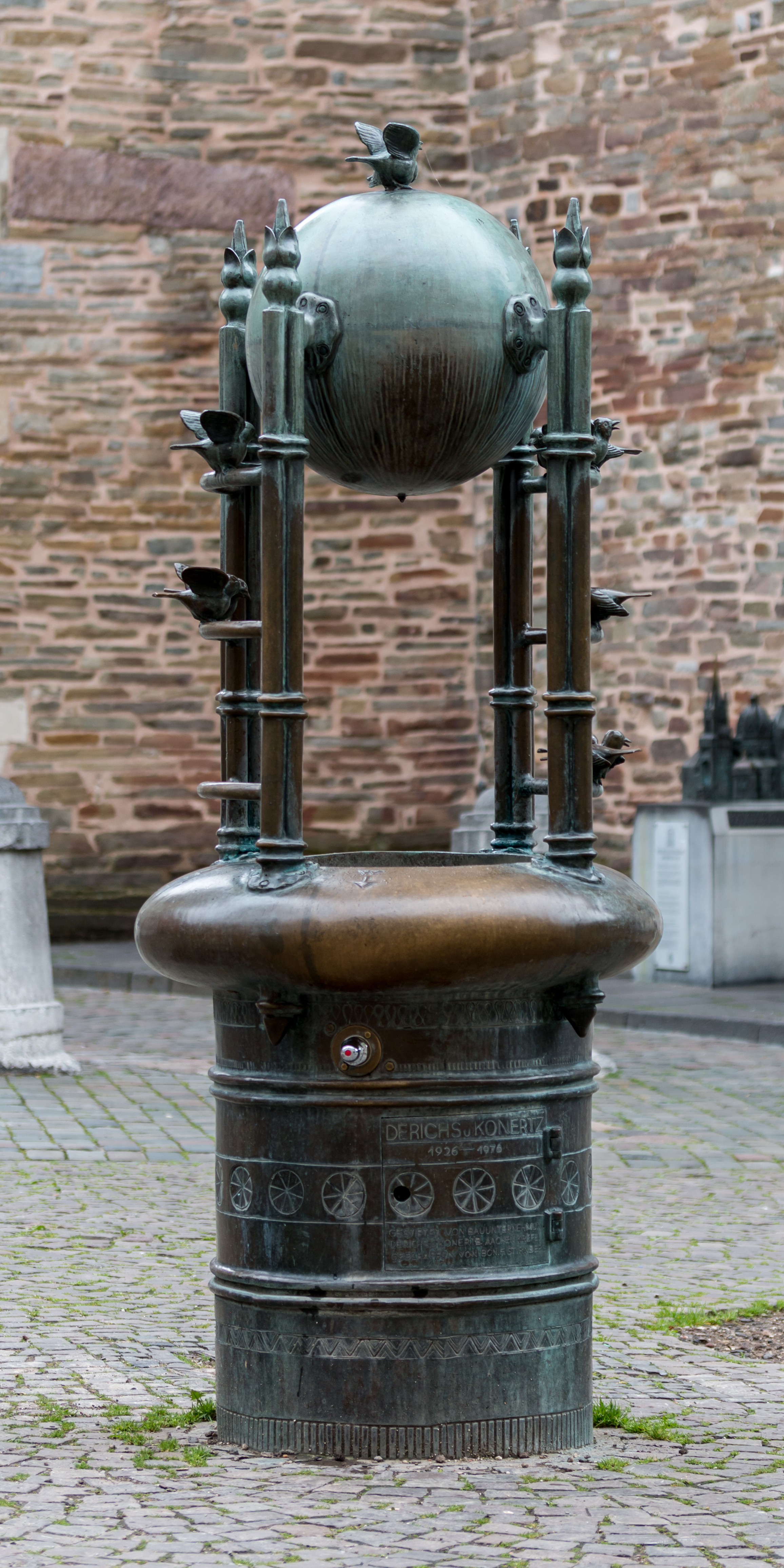 Möschebrunnen or Spatzenbrunnen (Bonifatius Stirnberg, 1978) at the Münsterplatz, Aachen, North Rhine-Westphalia, Germany Sculpture TitleMöschebrunnenArtistBonifatius StirnbergDate1978